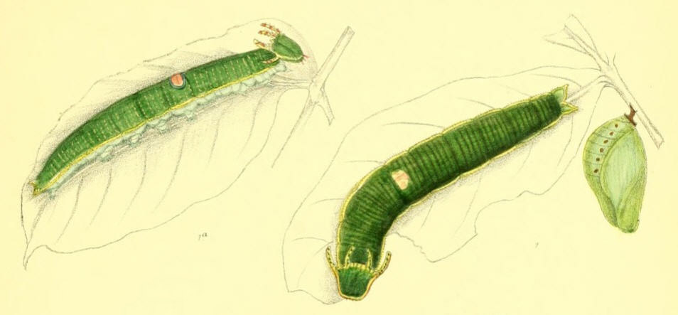 Haridra imna